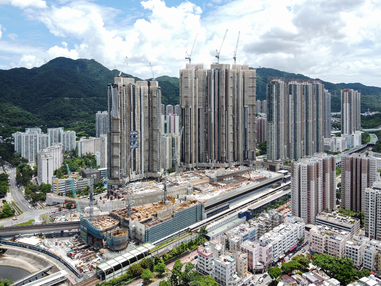 Tai Wai Station Property Site view